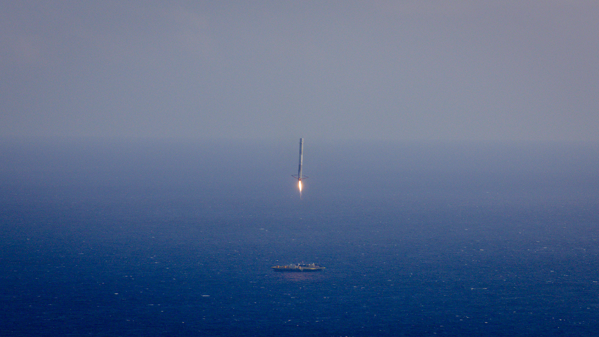 Falcon 9 first stage attempts landing on autonomous spaceport drone ship Just Read the Instructions after launch of CRS-6 Dragon.